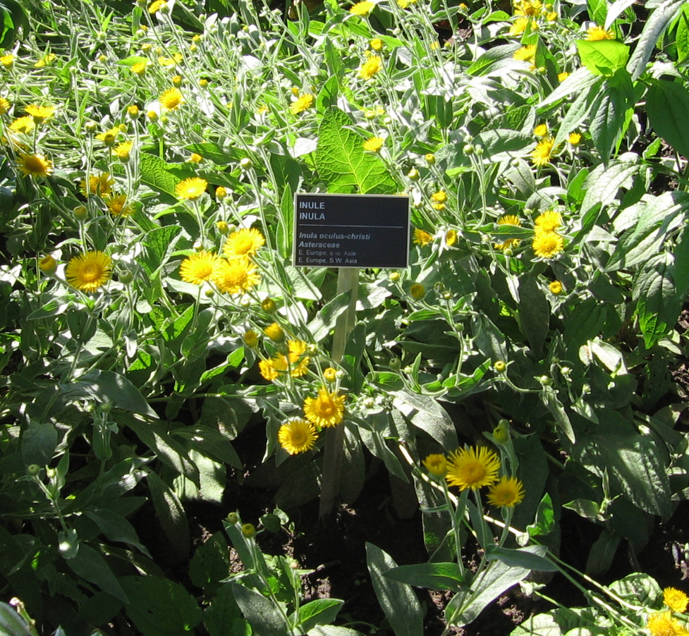 Inula oculus-christi, Jardin botanique de Montréal